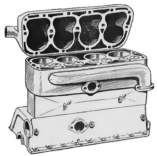 'Ch. II 'Fig. 47 Cylinders and Upper Half of Crank Case Cylinders and upper half of crankcase cast in one piece. The cylinders have a detachable head. Sidevalve valves may be seen in the upper face of the cylinder block.